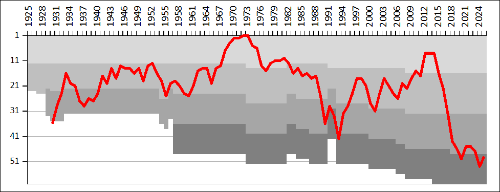 A chart showing the progress of Åtvidabergs FF through the Swedish football league system. Horizontal black lines represent league divisions.